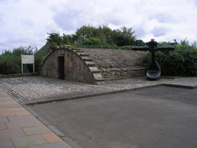 Anchor and wheelie bin store building The view of one of two anchors on display at Culross. This one is at the eastern end of a car park next to a building that is currently used for storing wheelie bins. Unfortunately the sign to the left of the building gives no indication as to the original purpose of the building.